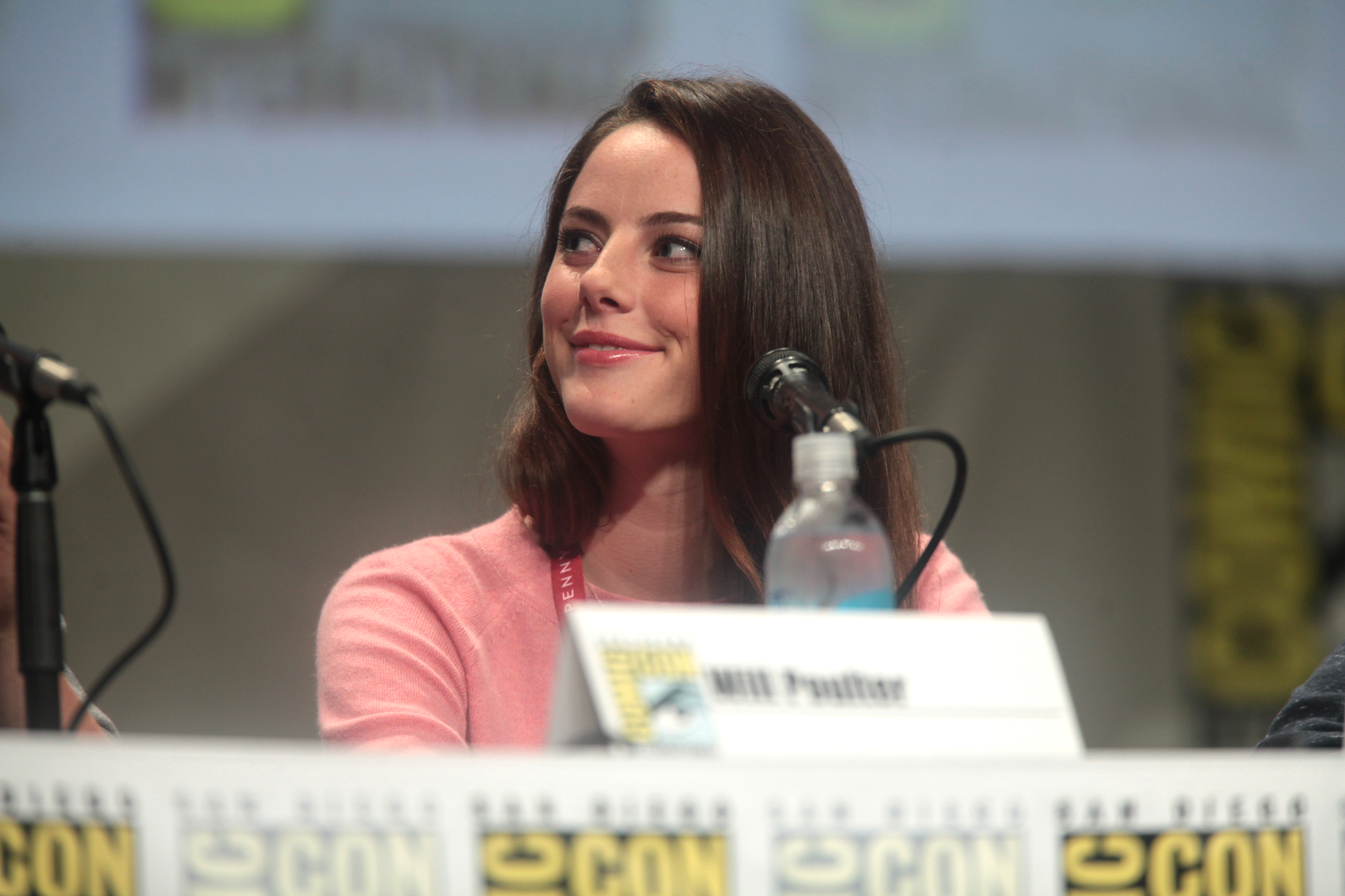 Kaya Scodelario speaking at the 2014 San Diego Comic Con International, for "The Maze Runner", at the San Diego Convention Center in San Diego, California.